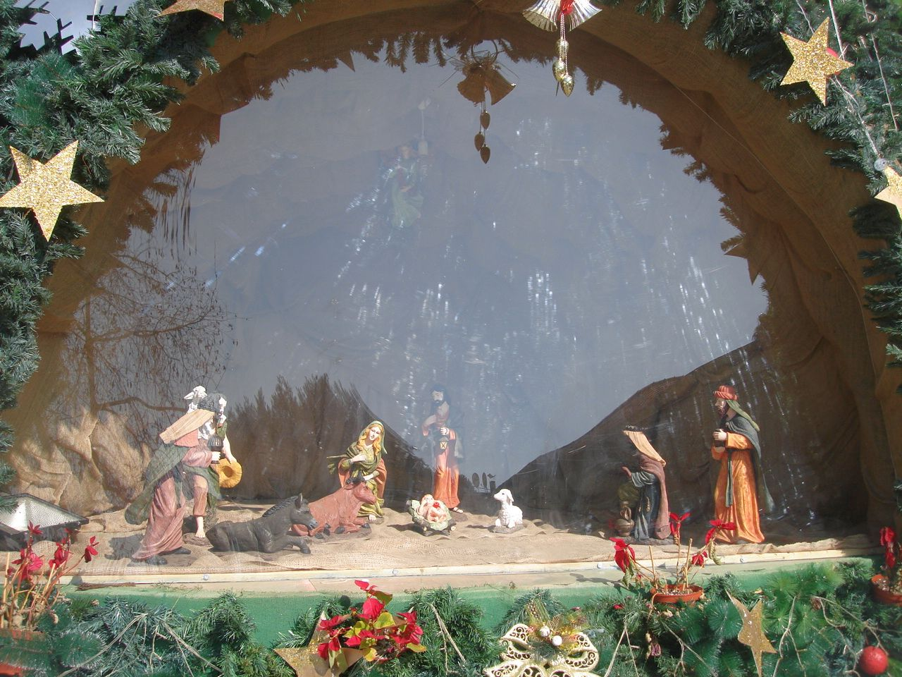 In Nazareth, church of the Archangel Gabriel